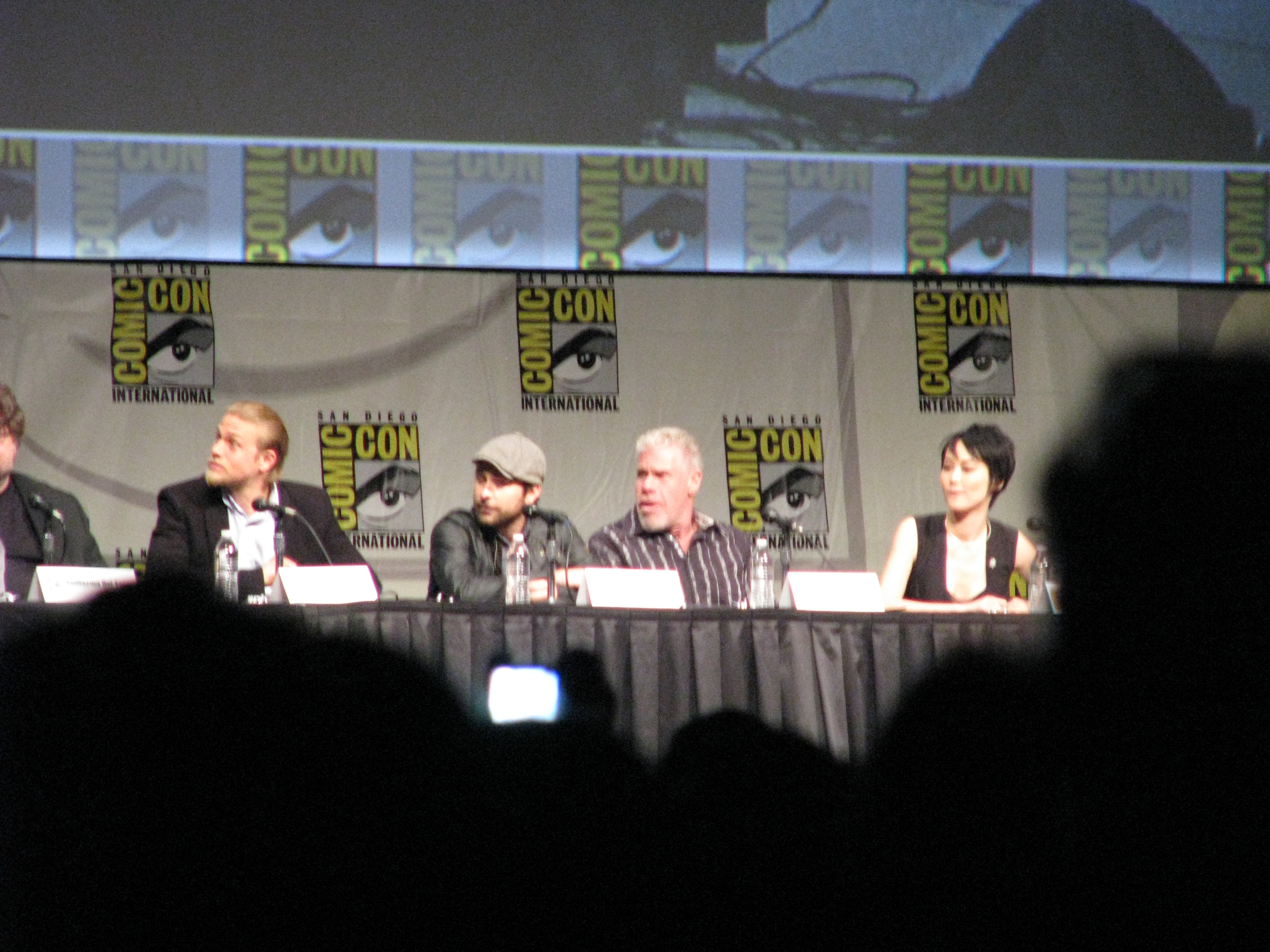 Another pic of the cast of Pacific Rim San Diego Comic Con 2012